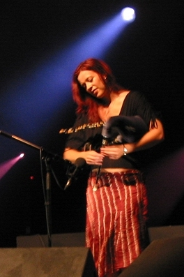 Original photograph of Kathryn Tickell taken by me (Maelor) at Lorient, Brittany in 2004.